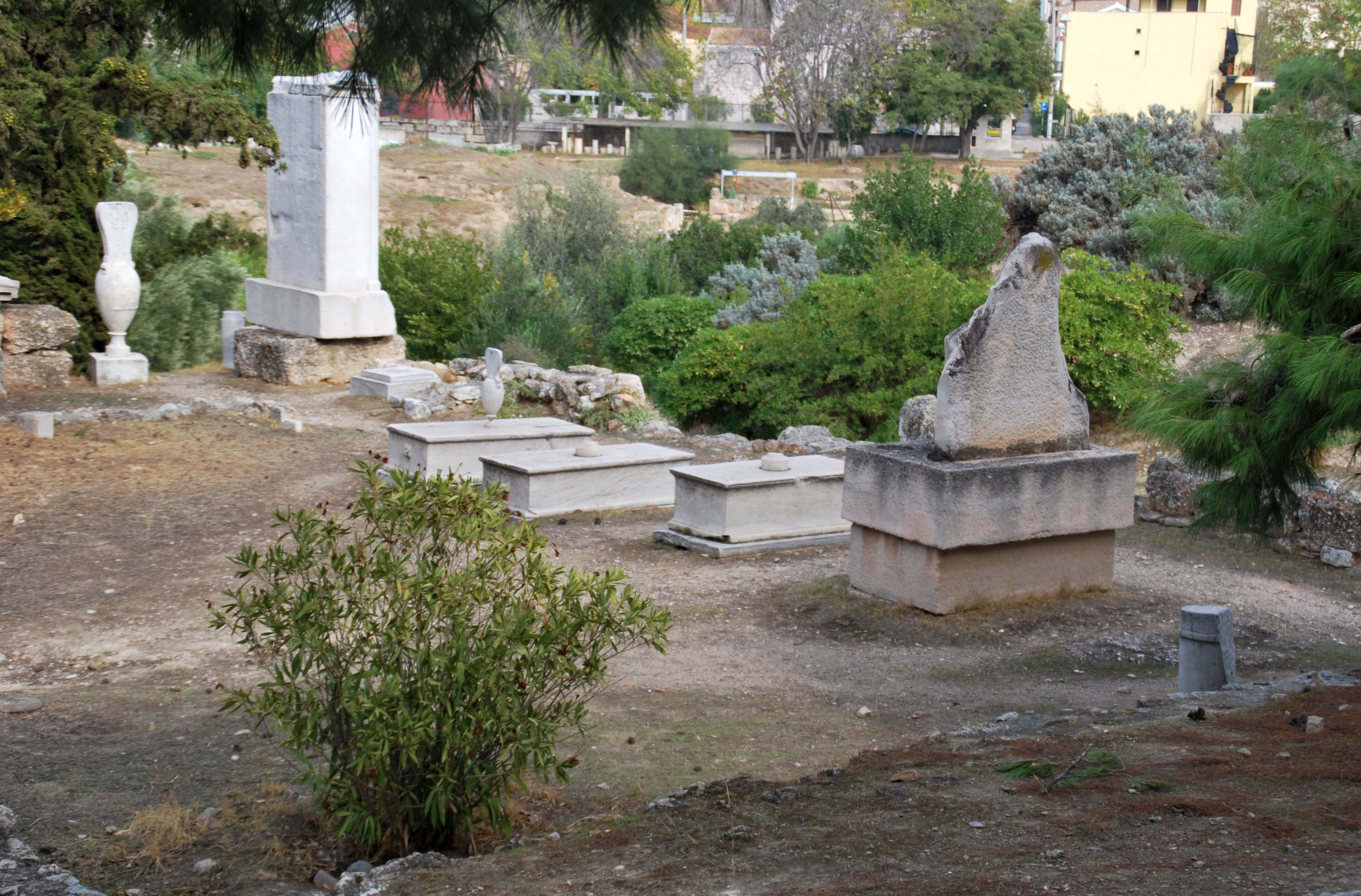 Kerameikos, Grave yard of ancient Athens.